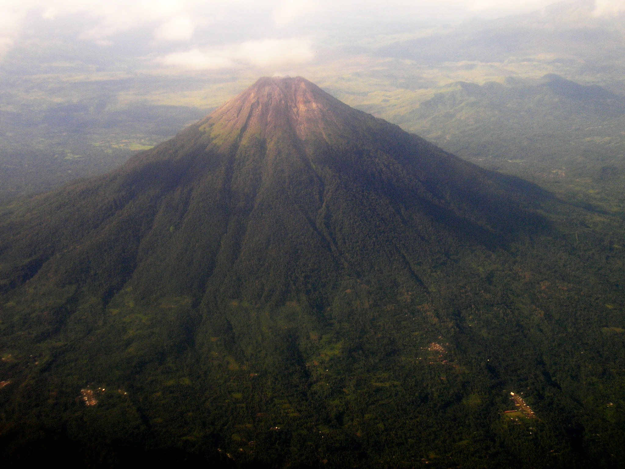 Ebulobo seen from the SSW in Flores, Indonesia.